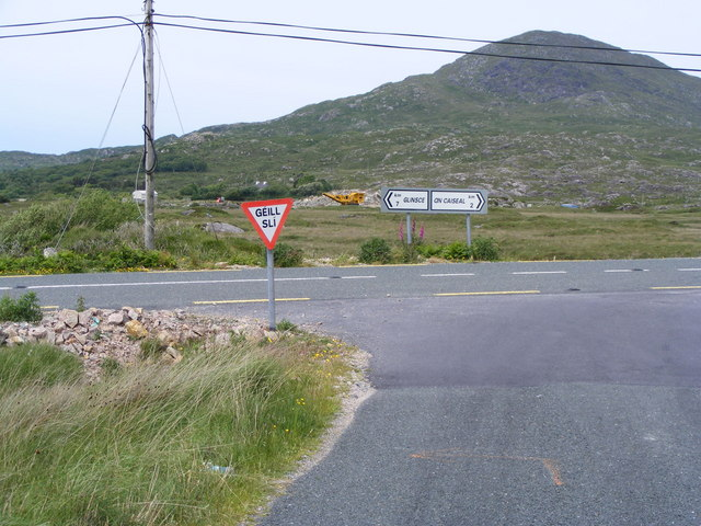 Road junction - Leitheanach Theas Townland Junction of minor road with the R340